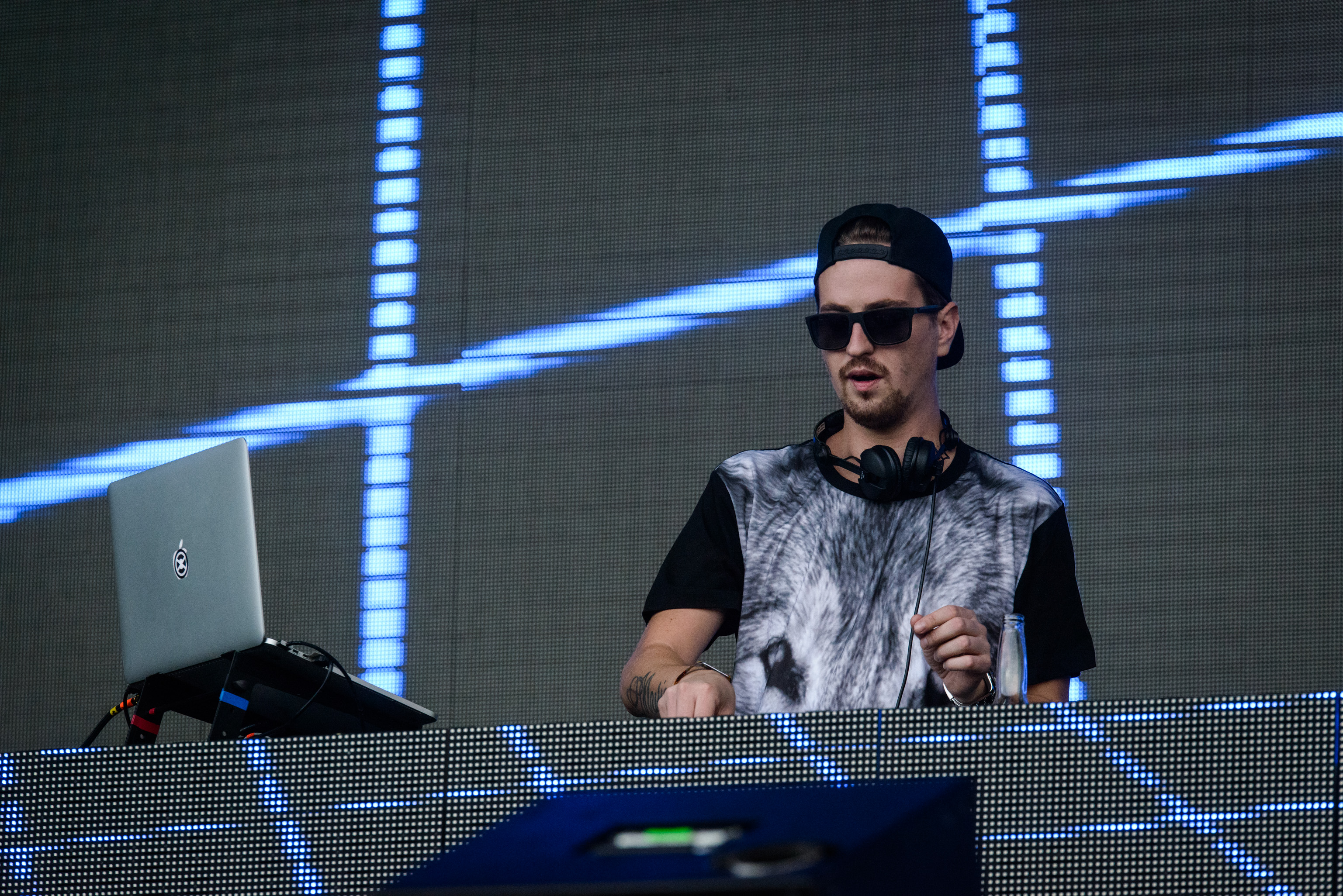 Robin Schulz @ Lollapalooza 2015